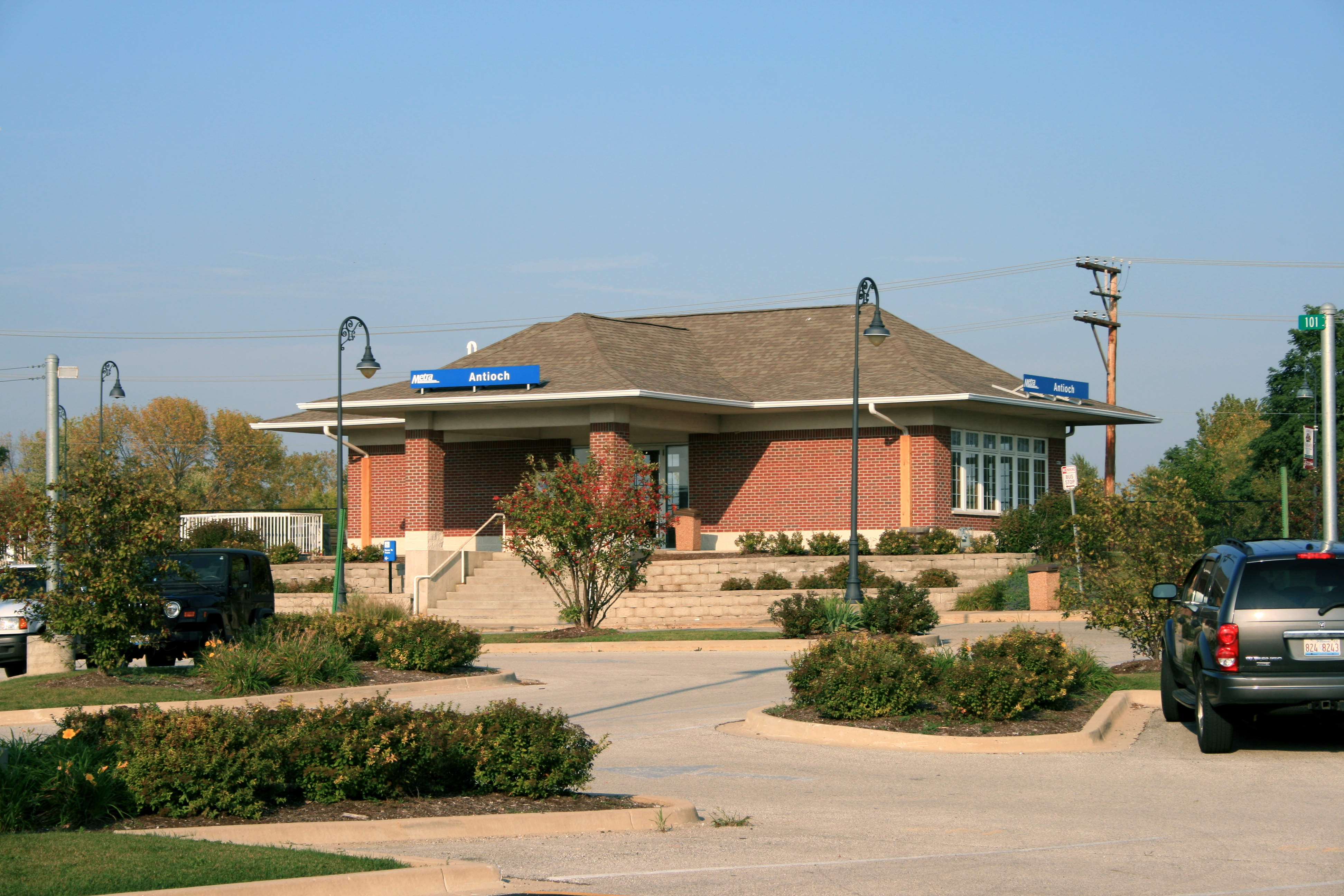 A photograph of the Antioch, IL Metra station.